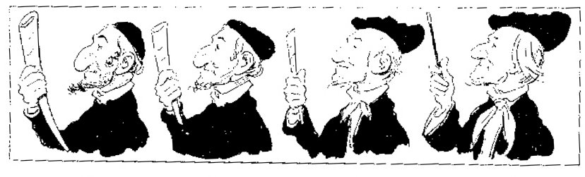 Cartoon 'Darwinian Evolution' suggesting that Richard Wagner was from Jewish forbears